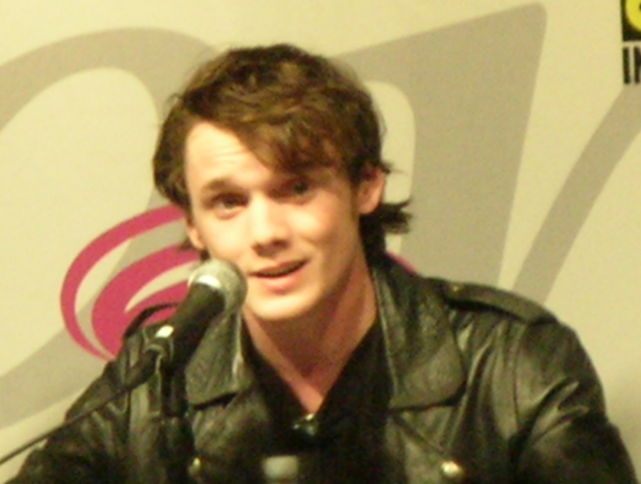 Anton Yelchin participating in a Terminator Salvation panel discussion at WonderCon 2009.